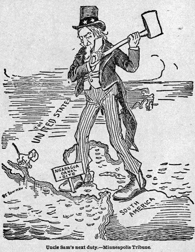 en:1895 political cartoon advocating US action to build Nicaragua Canal